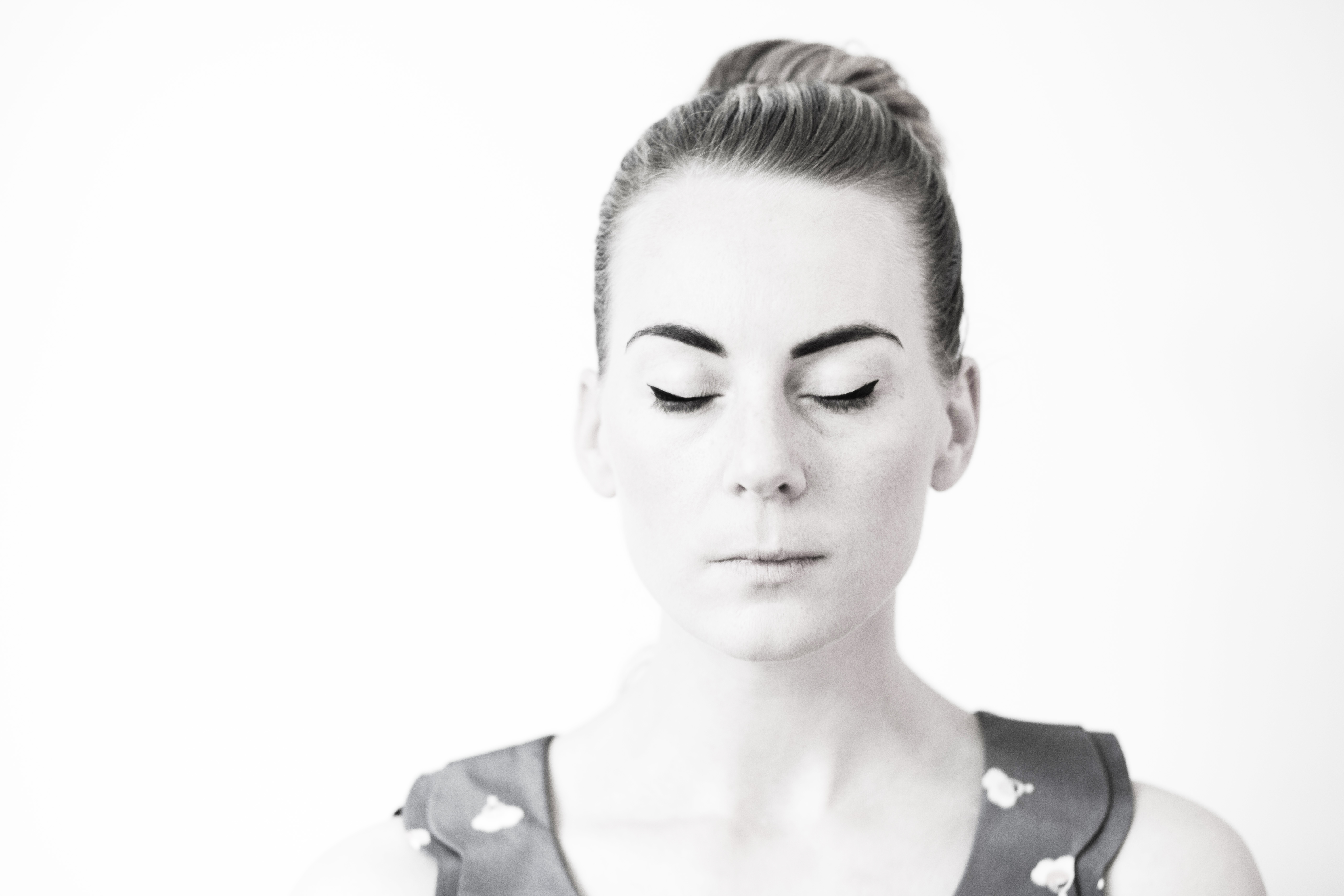 profile picture